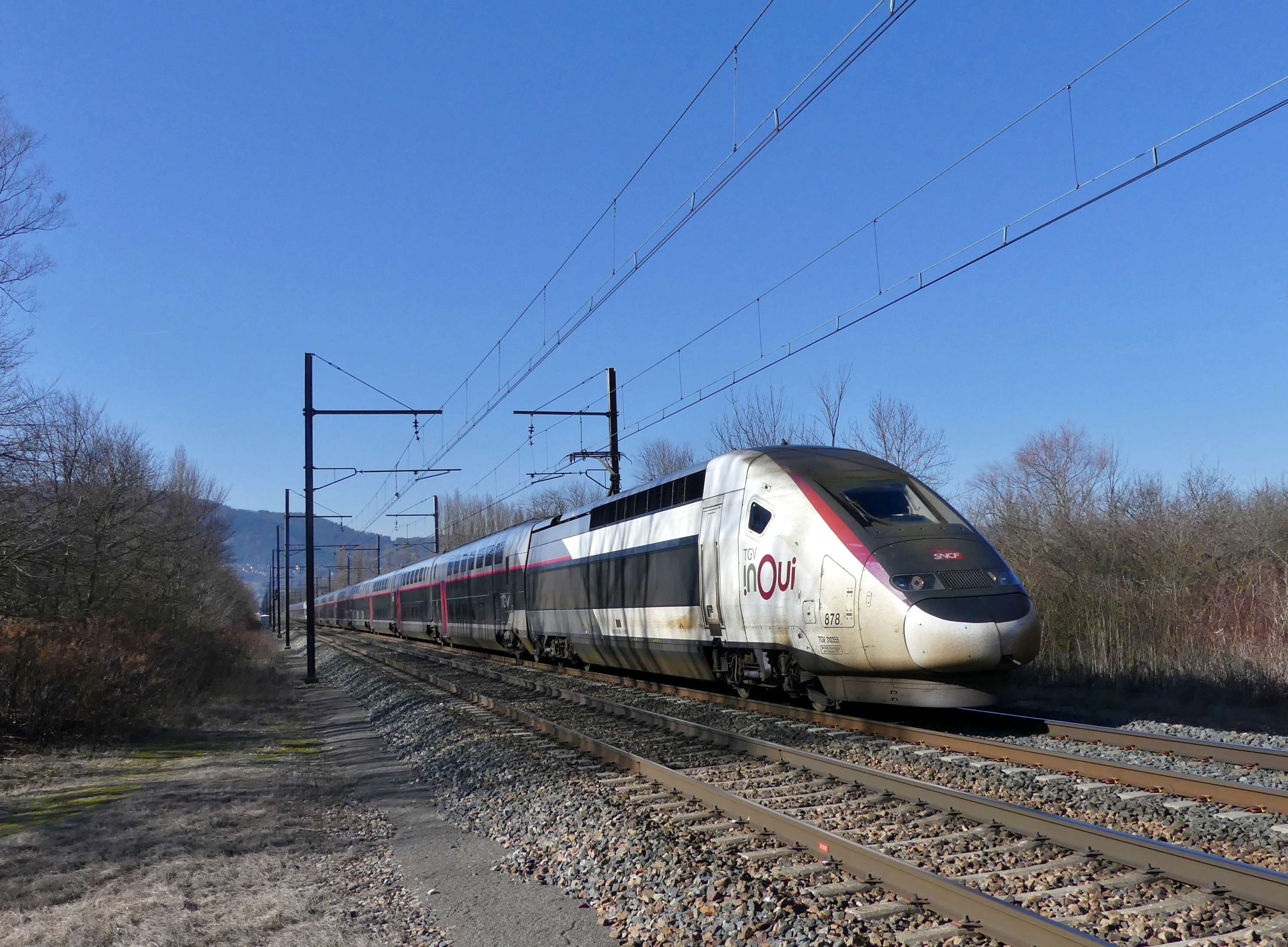 Sight of the French TGVs on winter journeys n° 615 and 6023 from Paris to Modane in the Alps, a few minutes after crossing Chambéry, in Savoie.